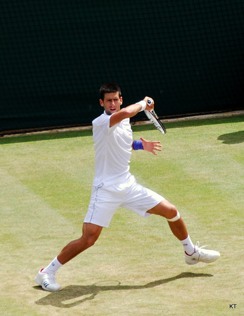 Novak Djokovic during his quarter-final against Bernard Tomic on Day 9 of Wimbledon 2011. Djokovic won 6-2 3-6 6-3 7-5.